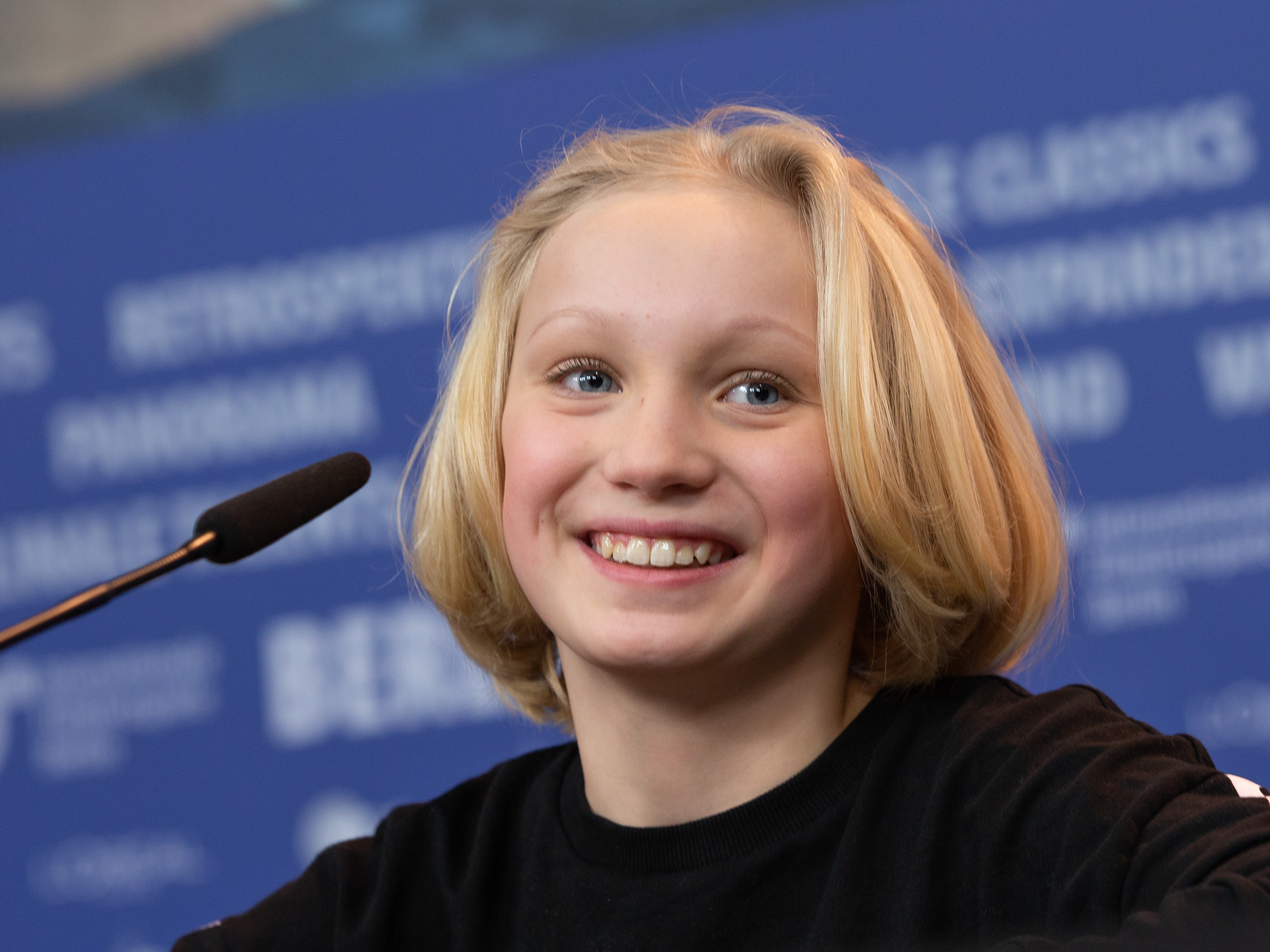 Actress Helena Zengel at the Berlinale 2019